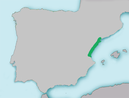 Distribution map of Valencia hispanica in Iberian Peninsula.